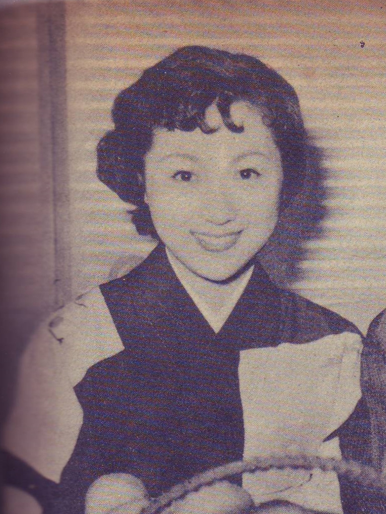 Hizuru Takachiho (Actress from Japan). taken in 1956.